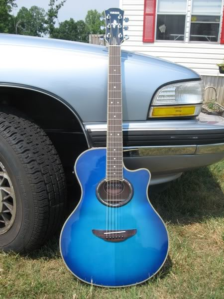 This is a Yamaha APX700 acoustic guitar.